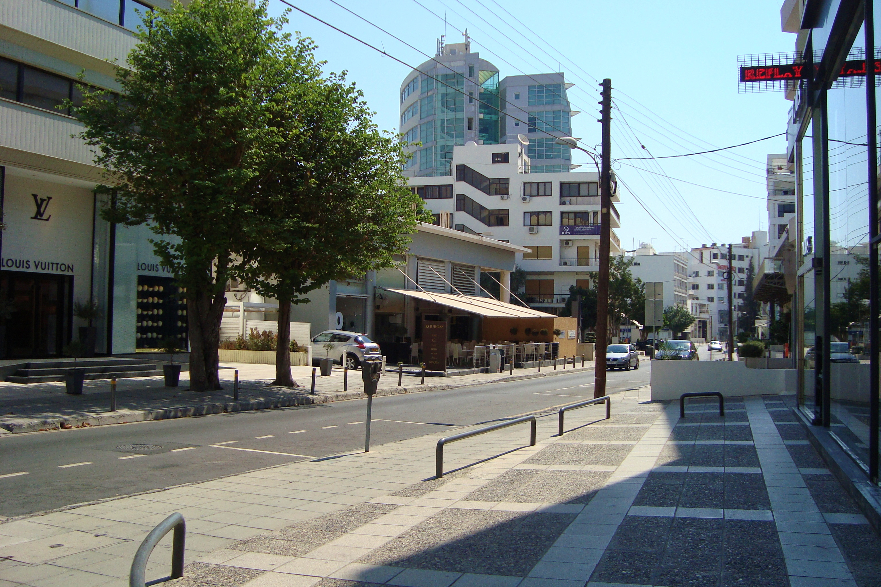 Stasikratous prestigious shopping street in Nicosia Republic of Cyprus